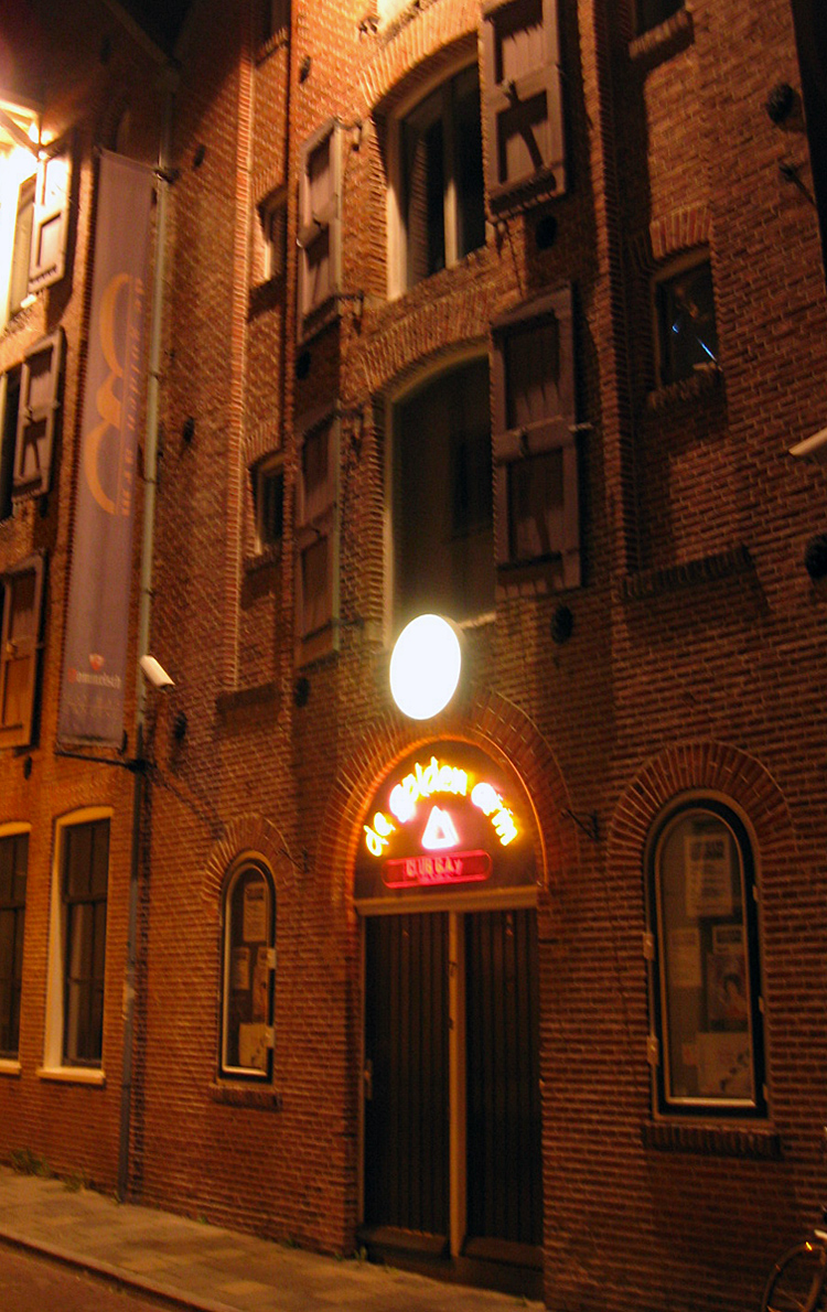 The former gay disco The Golden Arm (since 2008: Club G.A.y), which was located at Hardewikerstraat 7-11 in the city of Groningen since 1994. The place closed in 2013.